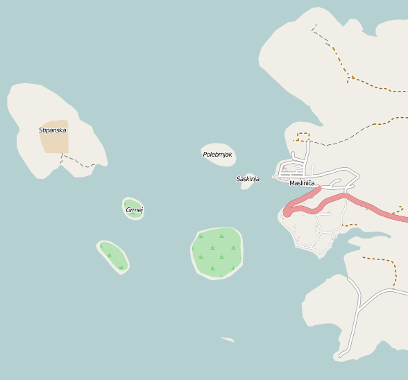 This map may be incomplete, and may contain errors. Don't rely solely on it for navigation.